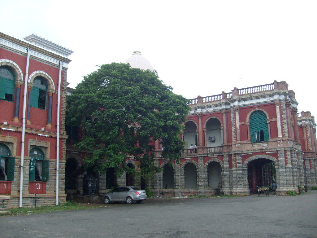 Side view of the main buildings of the Presidency College, Chennai